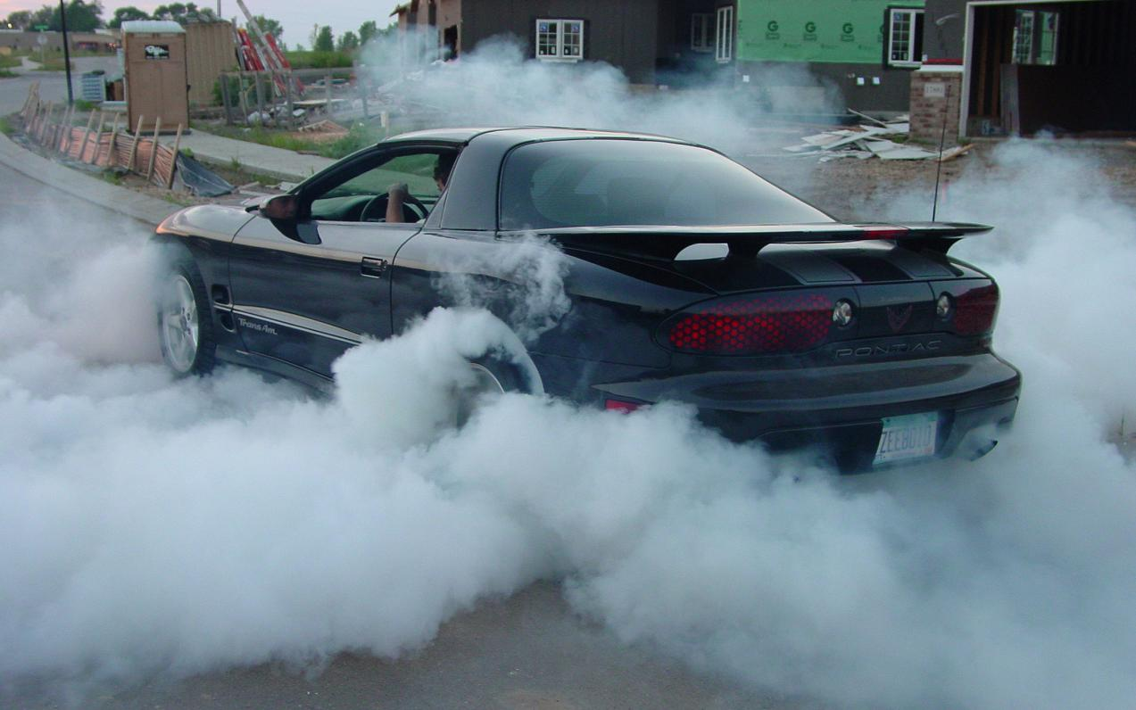 Source: Me. I took this photo myself of My car.